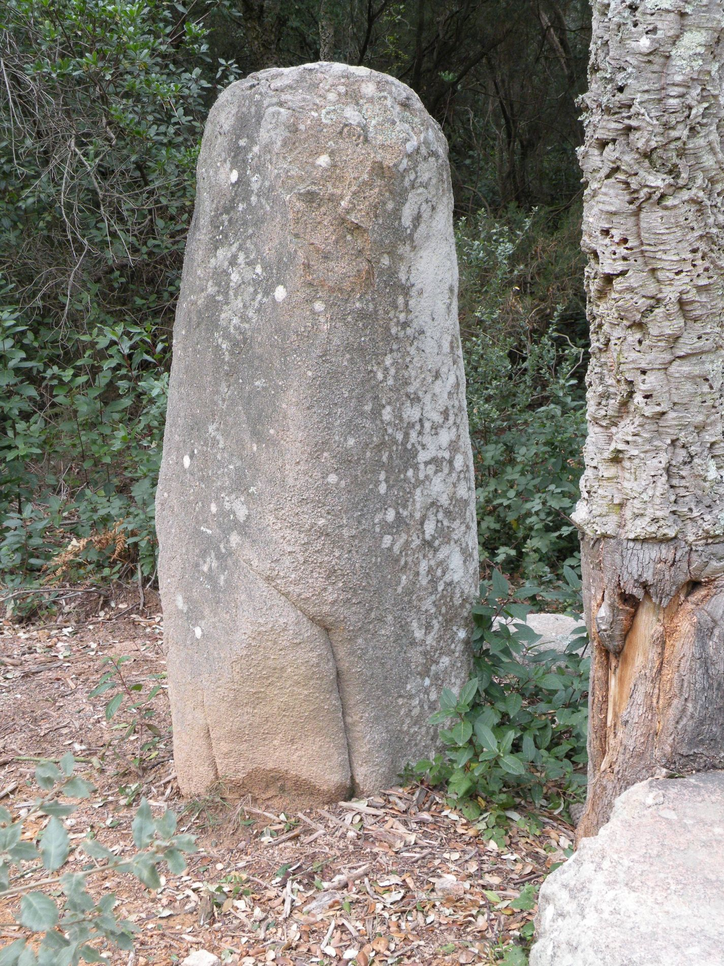 Llach's menhir, main face